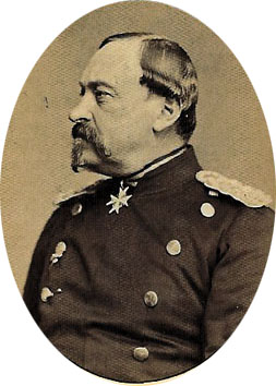 Ernest II, Duke of Saxe-Coburg and Gotha